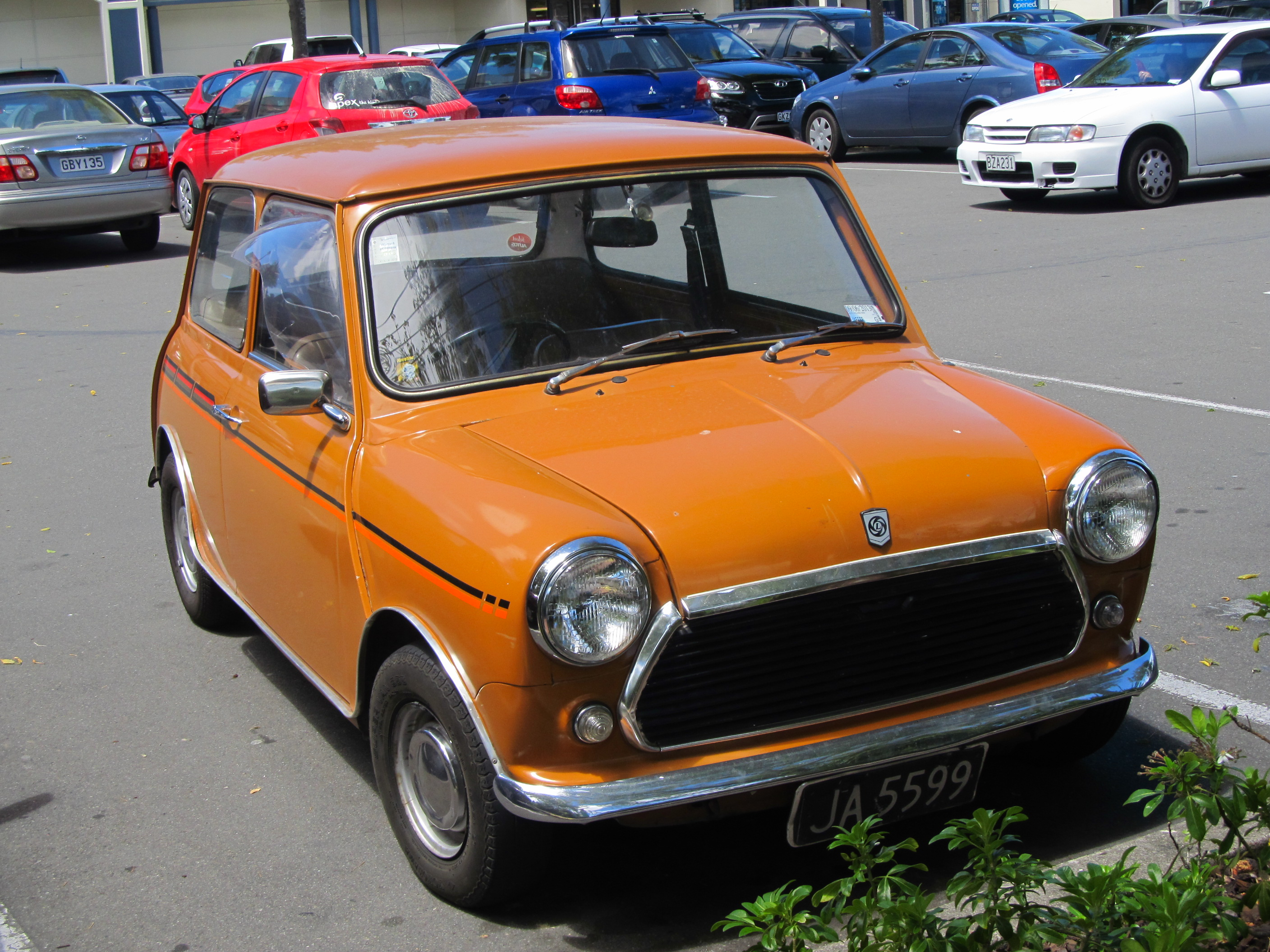 JA5599 Look at those stripes! I was very happy to see this highly original Mini pull into my local mall car park recently, driven by a very frail-looking elderly lady...